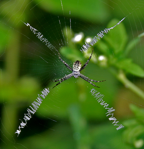 Grass cross spider Argiope catenulata at Ananthagiri Hills, in Rangareddy district of Andhra Pradesh, India.